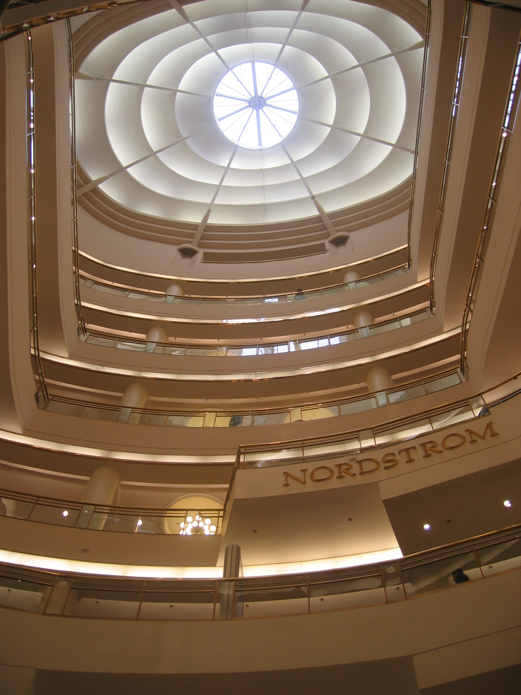 Inside the Nordstrom store in San Francisco